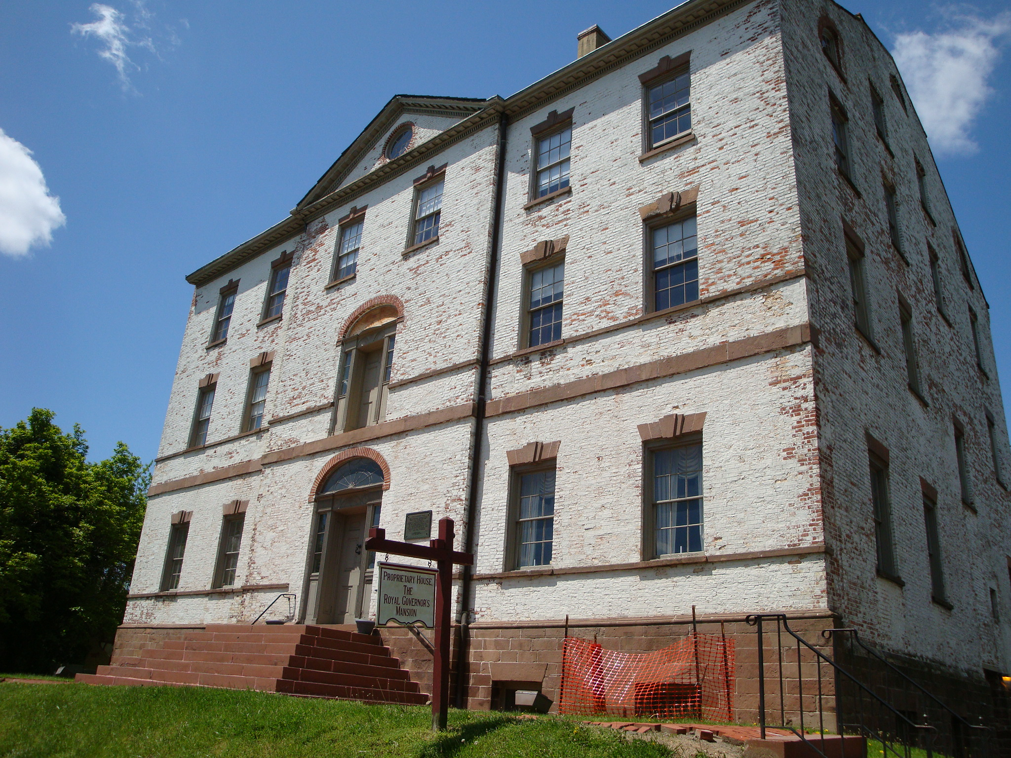 Original Govenor's House in Perth Amboy, NJ